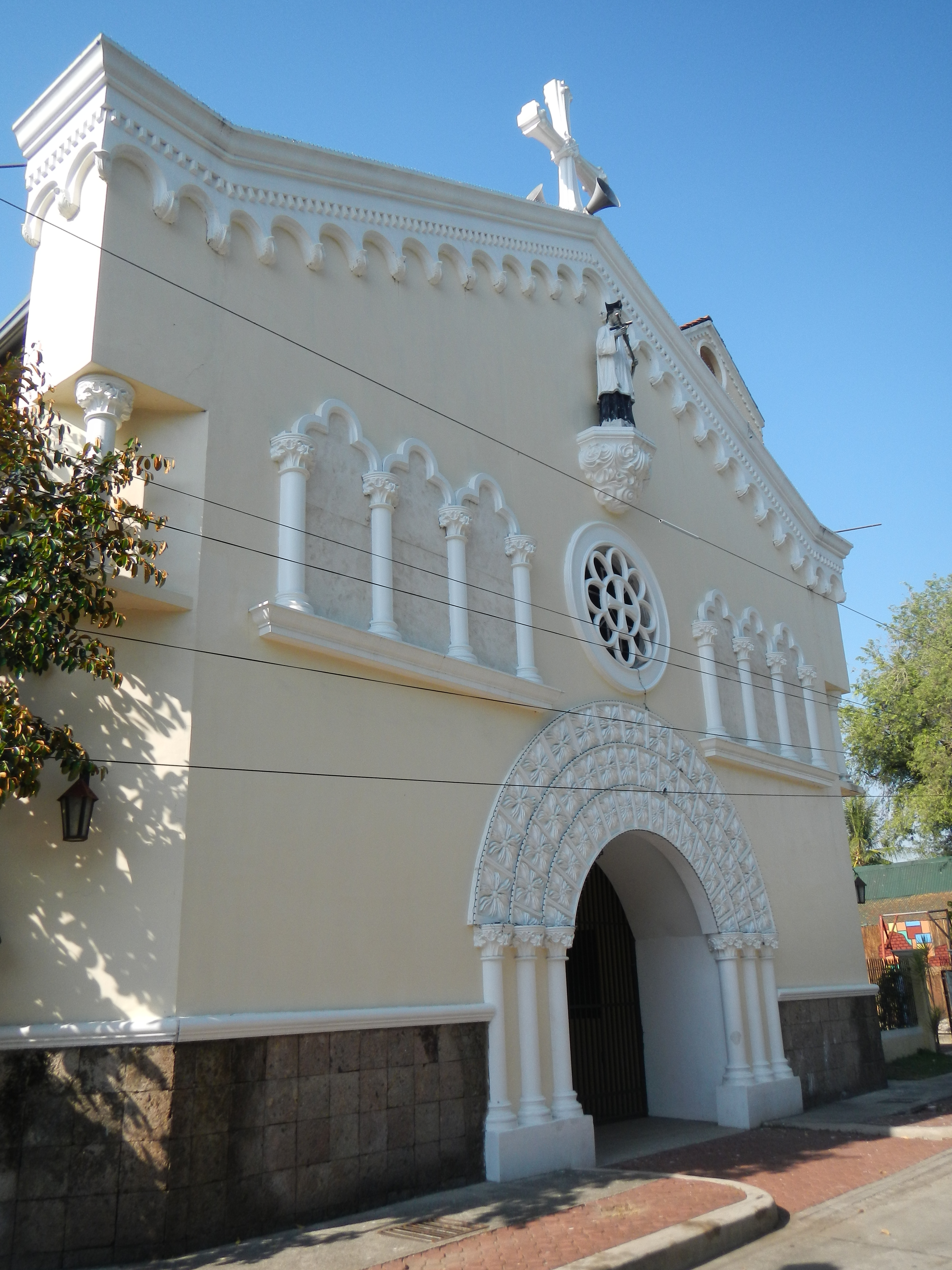 (F-1935) Saint John Nepomucene Parish Church of Anao - Fr. Mike Marquez, Parish Priest, [1] [2] Roman Catholic Diocese of Tarlac[3] [4] Saint John Nepomucene Parish (F-1935) Poblacion St., Anao 2310 Tarlac, Philippines Titular: St. John Nepomucene, May 16 Parish Priest: Father Ricky Barayoga Vicariate of St. Rose of Lima[5]Anao, Tarlac[6]